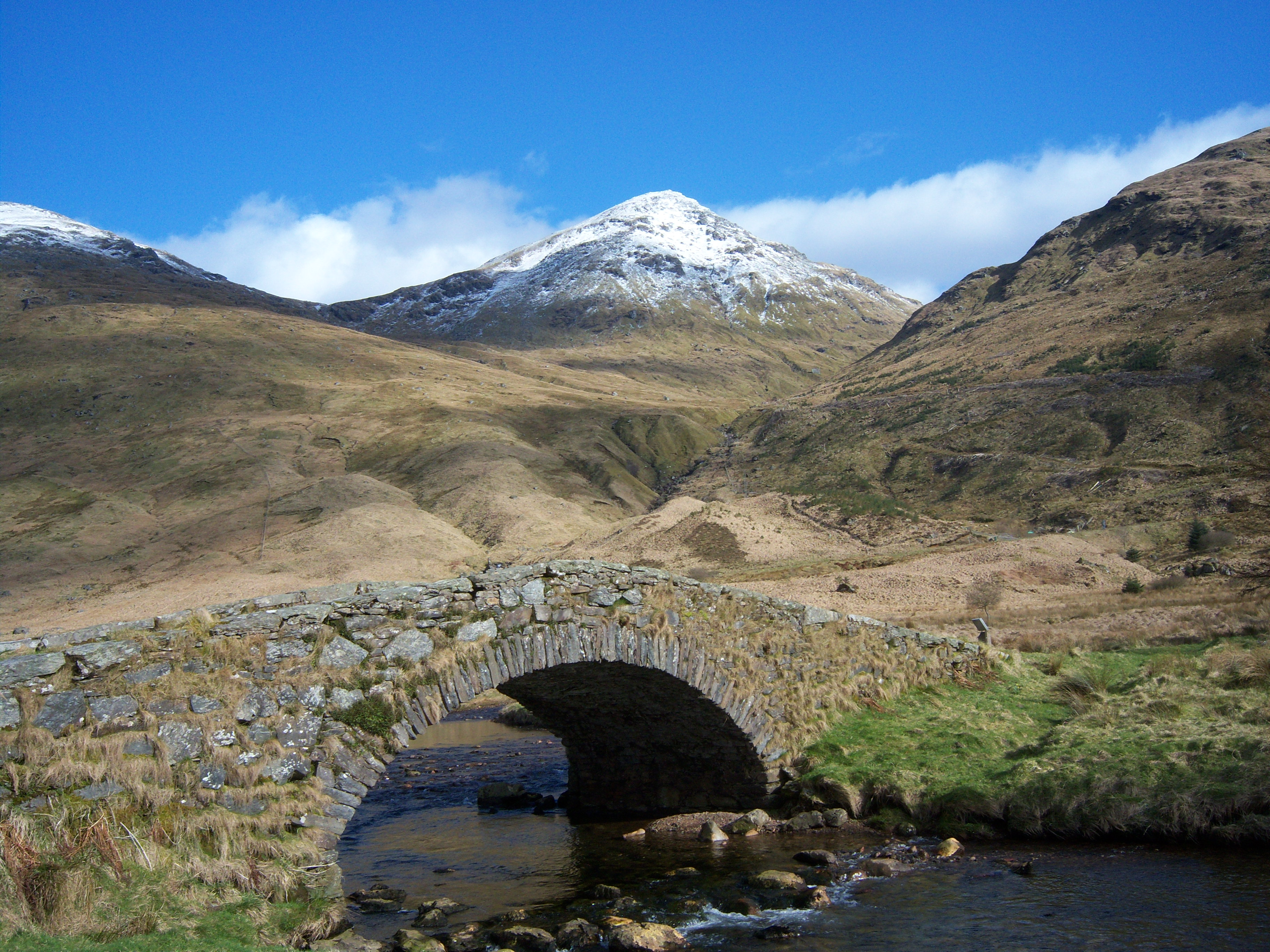 Beinn Ime seen from the Butterbridge.